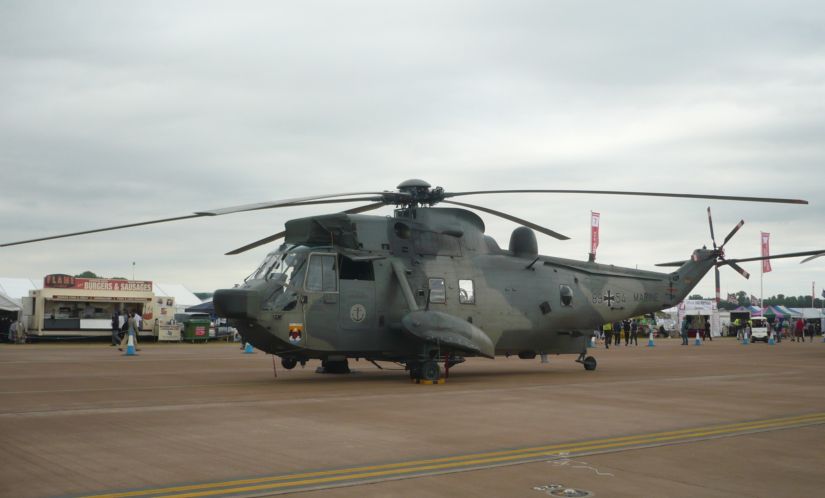 German Navy Westland Sea King at RIAT 2010.